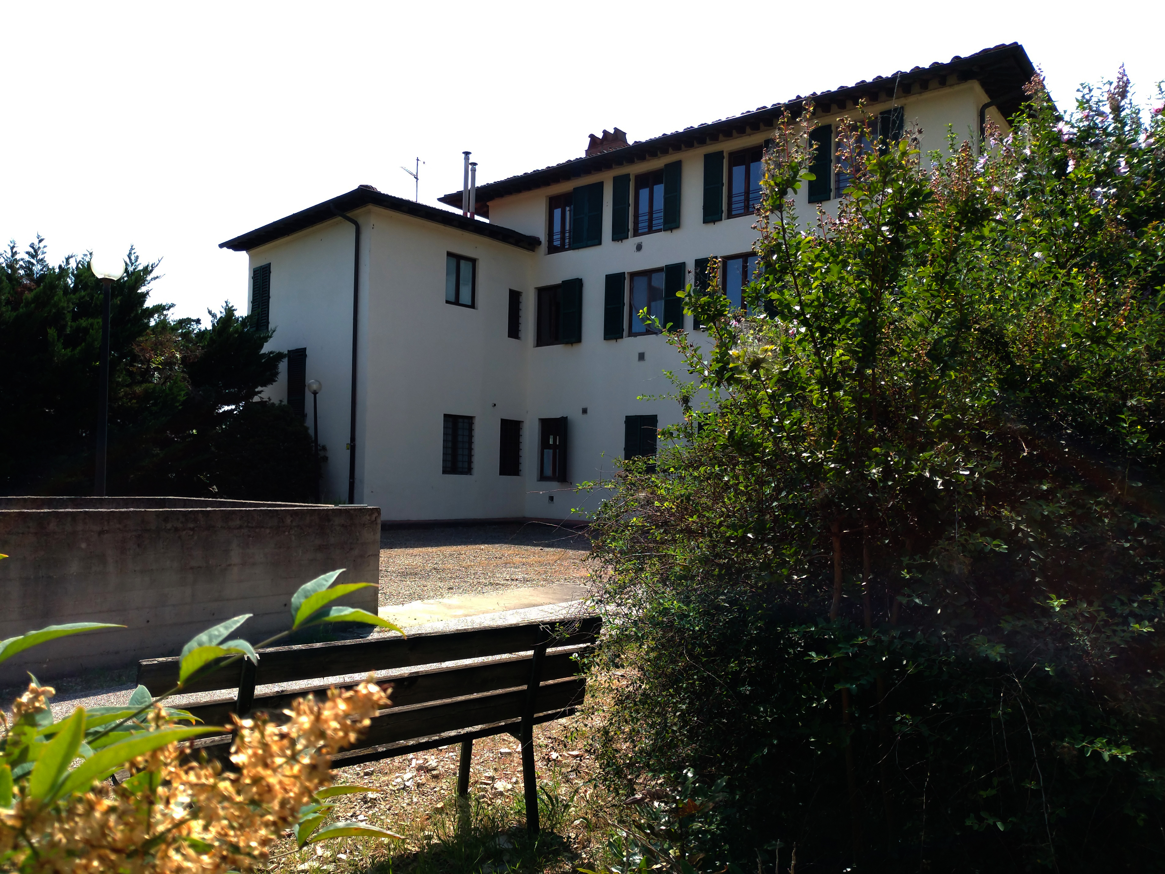 La Funga